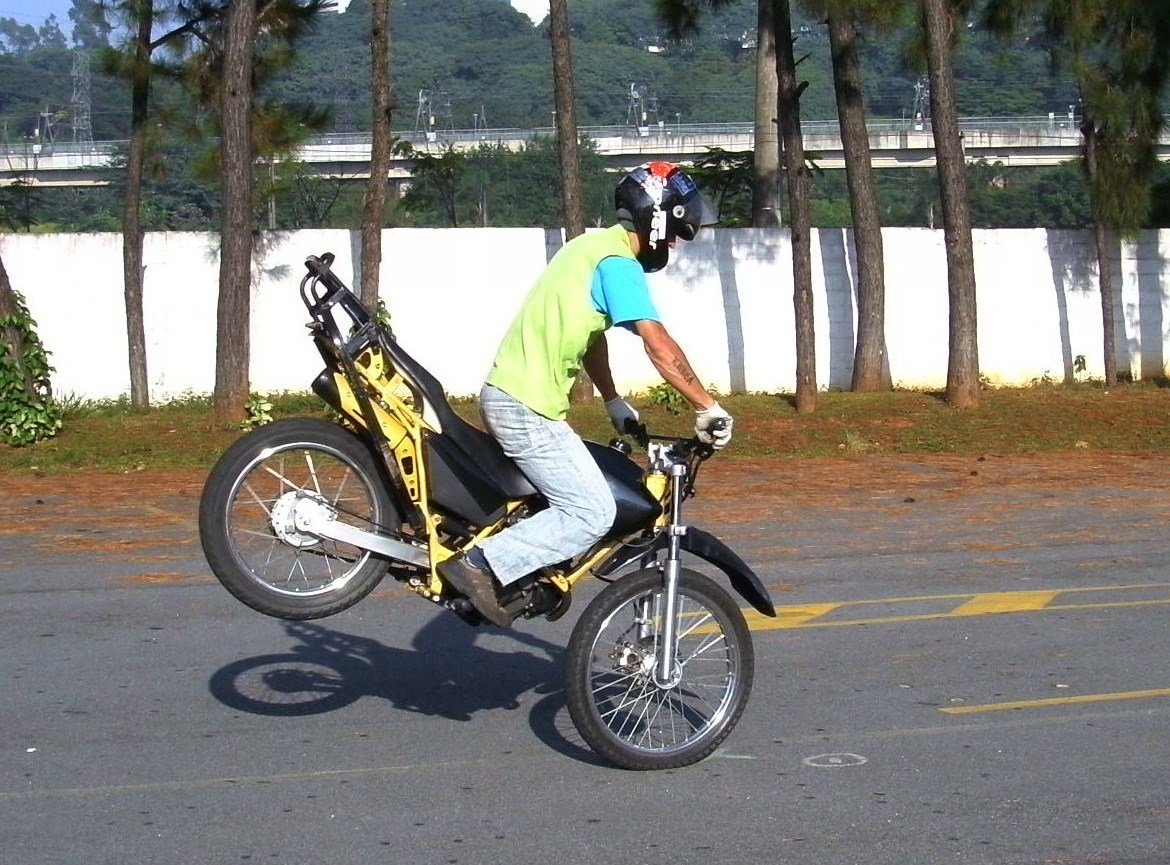 Stunt, stoppie, wheelie from brazil